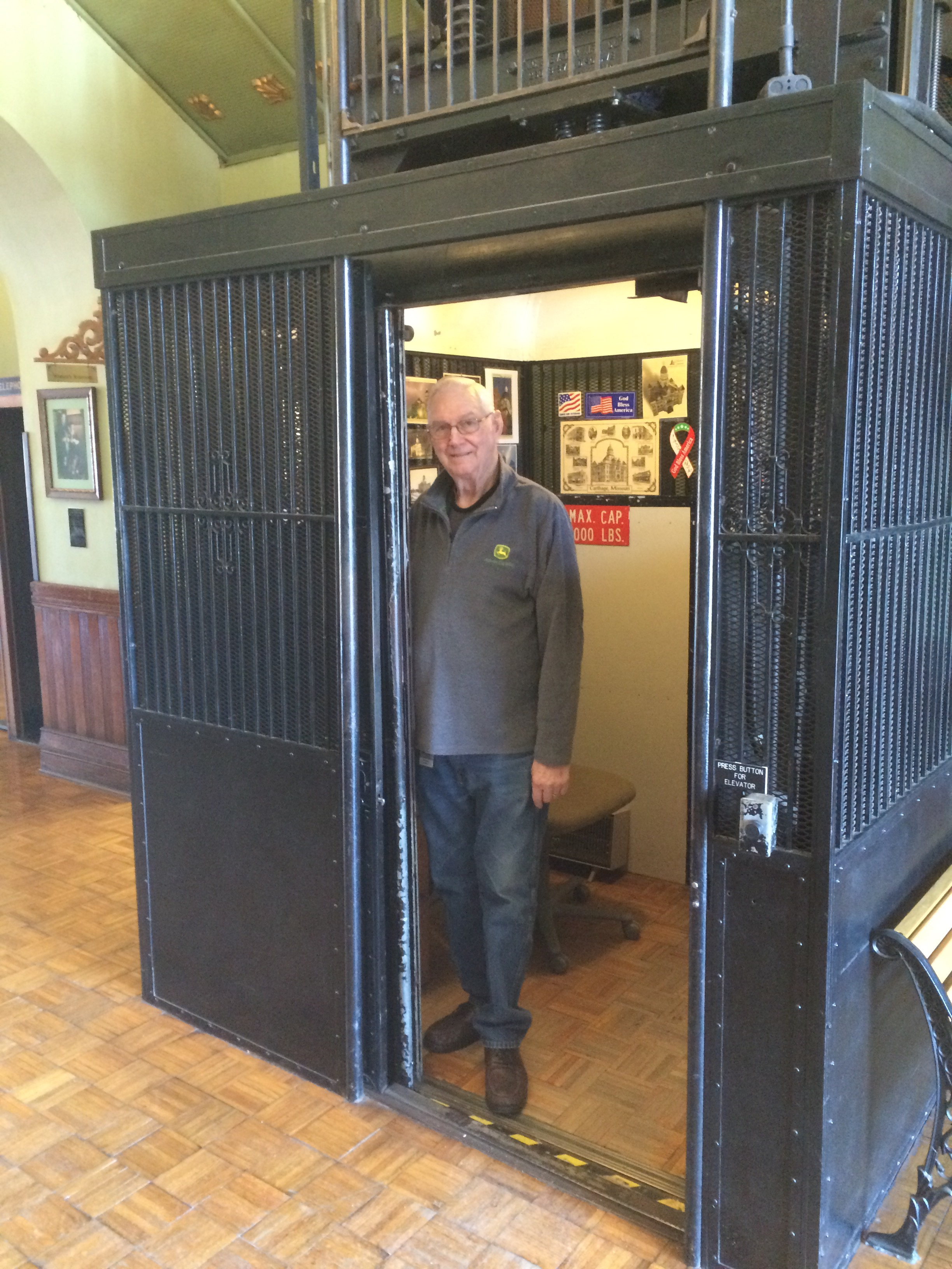 Historic elevator and operator inside the Carthage, Missouri Courthouse.